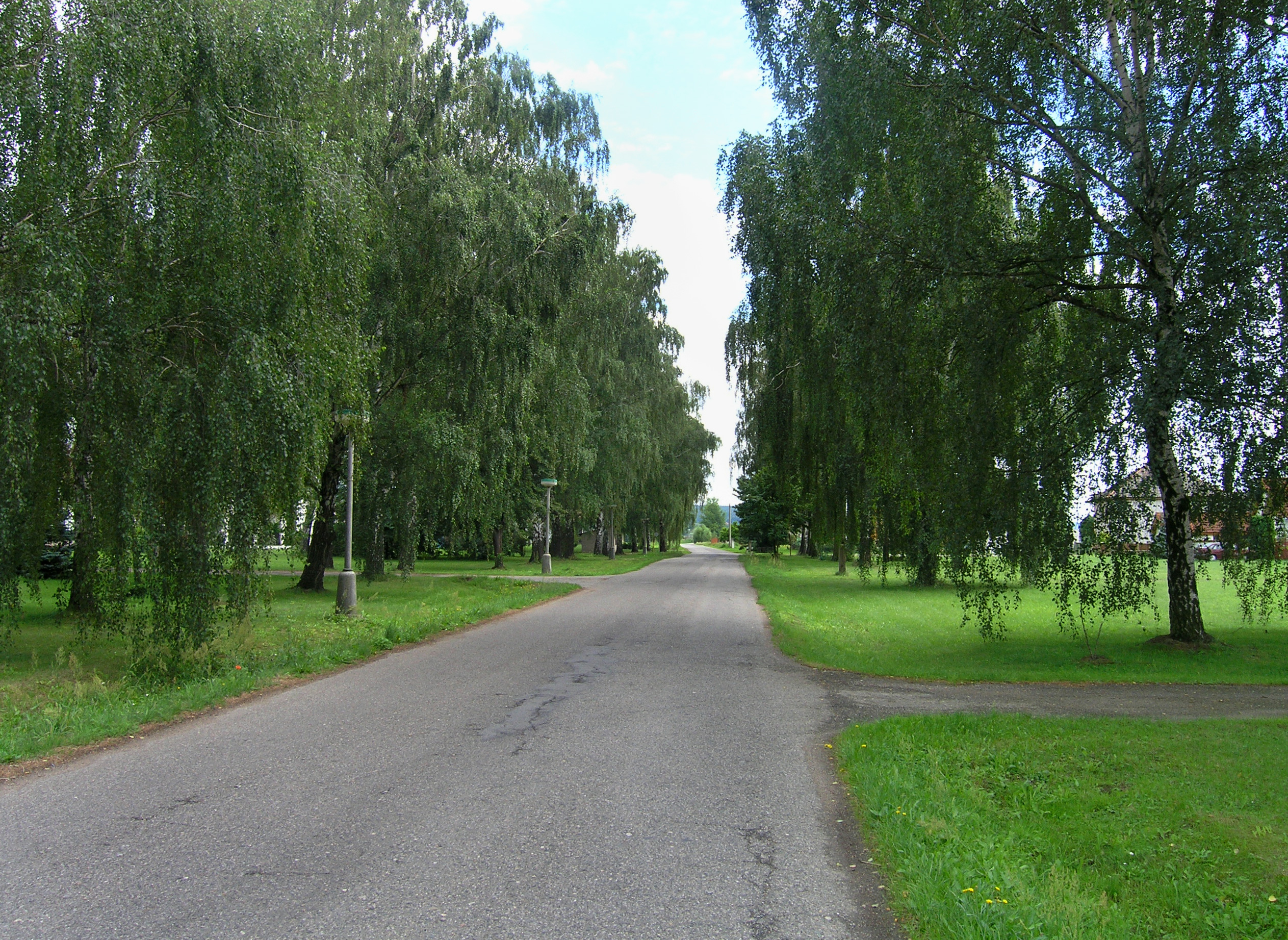 Main street in Sulovice, part of Svatý Mikuláš village, Czech Republic